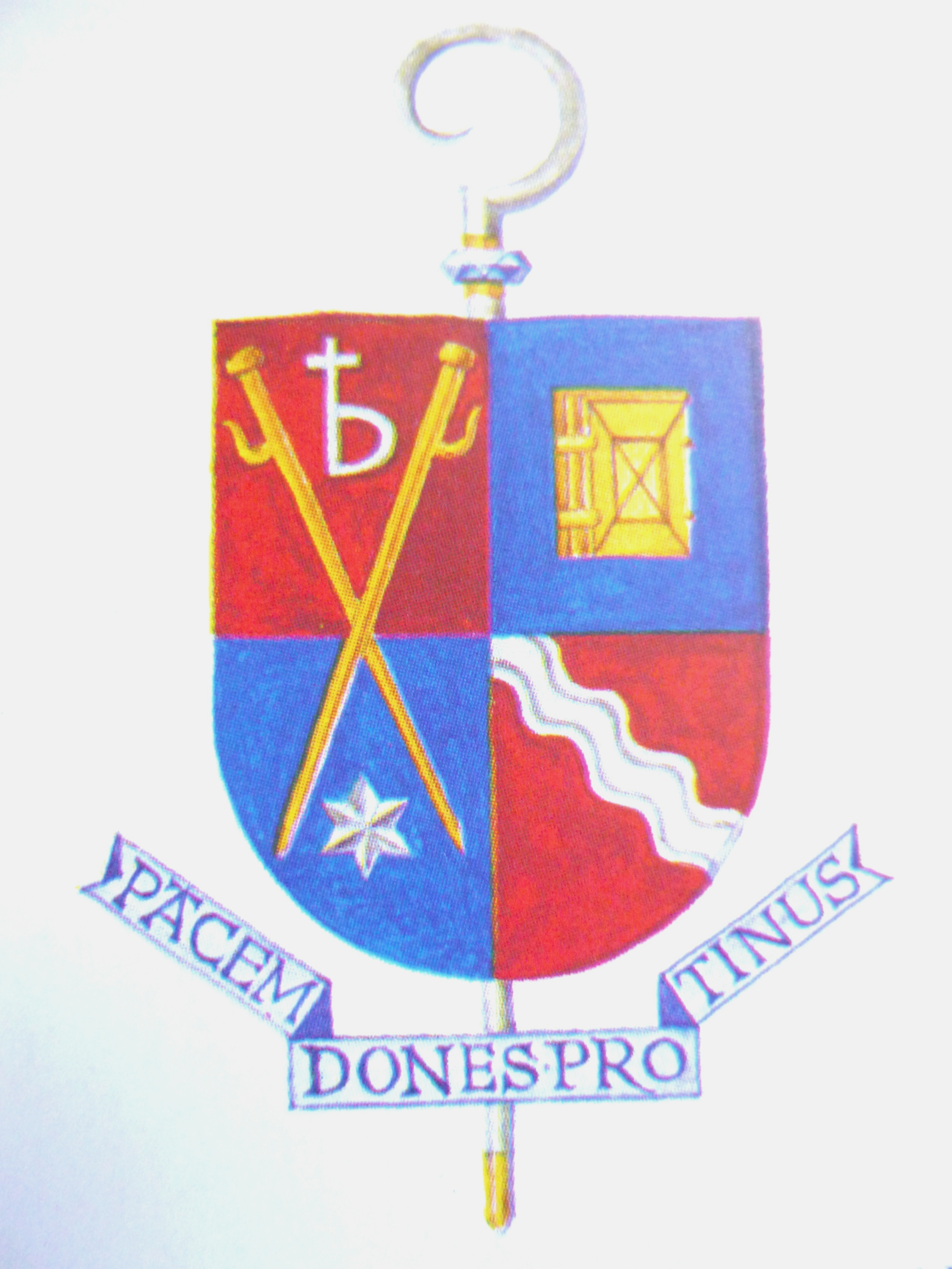 coat of arms archabbot Theodor Hogg OSB of Beuron (2001-2011)